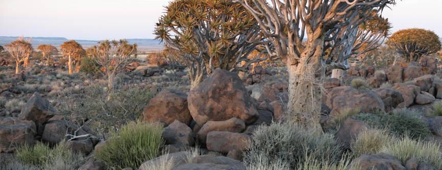 Scott A. Christy, photographer is part of our group researching for a wiki page on Namibian Communal Wildlife Conservancies